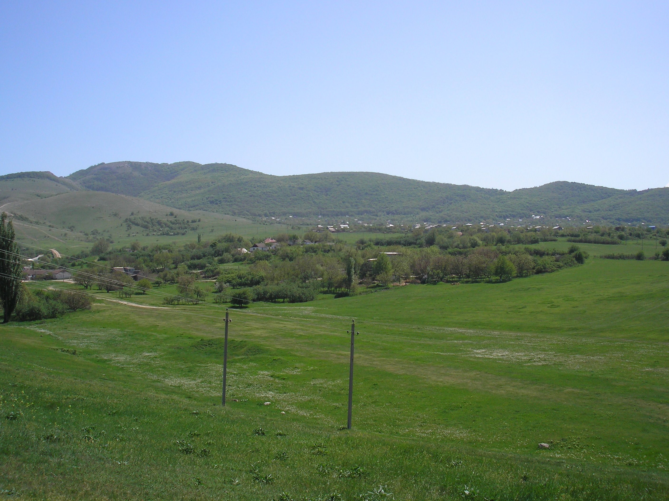 Village Mramornoe, Simferopol district, Crimea